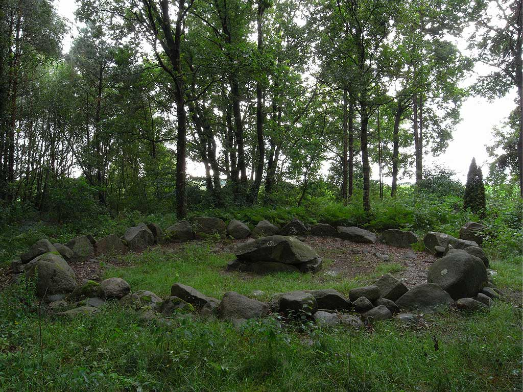 Steinkiste von Flögeln